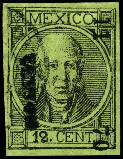 Mexico 12c stamp of 1868 with image of Miguel Hidalgo